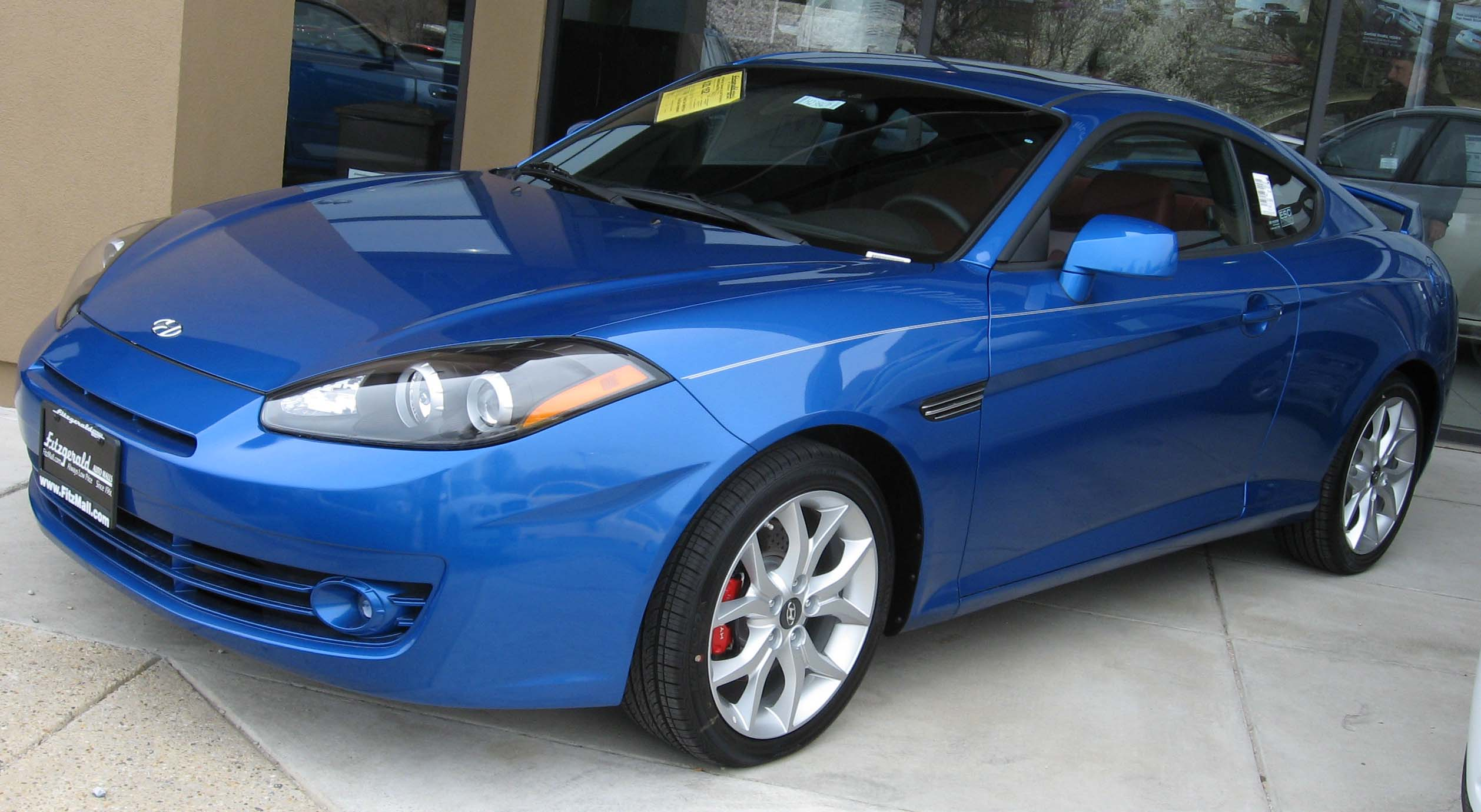 2007 Hyundai Tiburon photographed in USA.